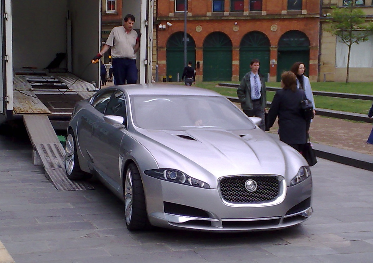 XF Concept being loaded onto a trailer outside Urbis in Manchester, UK.